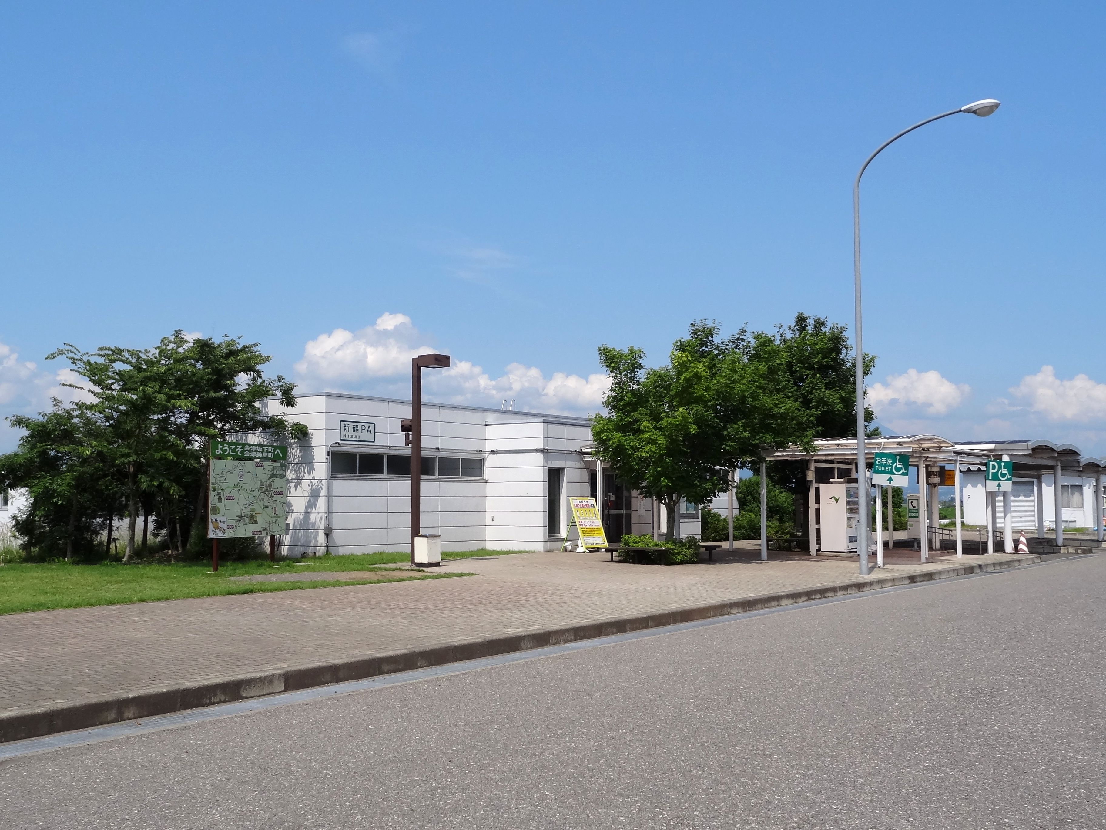 Niitsuru Parking Area on the Ban-etsu Expressway inbound line